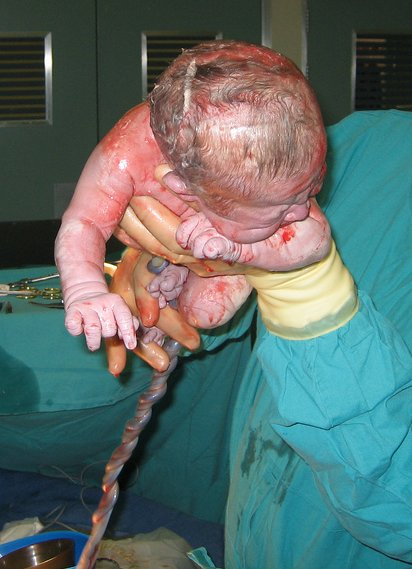 Closeup of newborn baby with umbilical cord attached just after a Caesarian section. Cropped version of Image:Caesarian shown.jpg Image:Caesarian shown.jpg